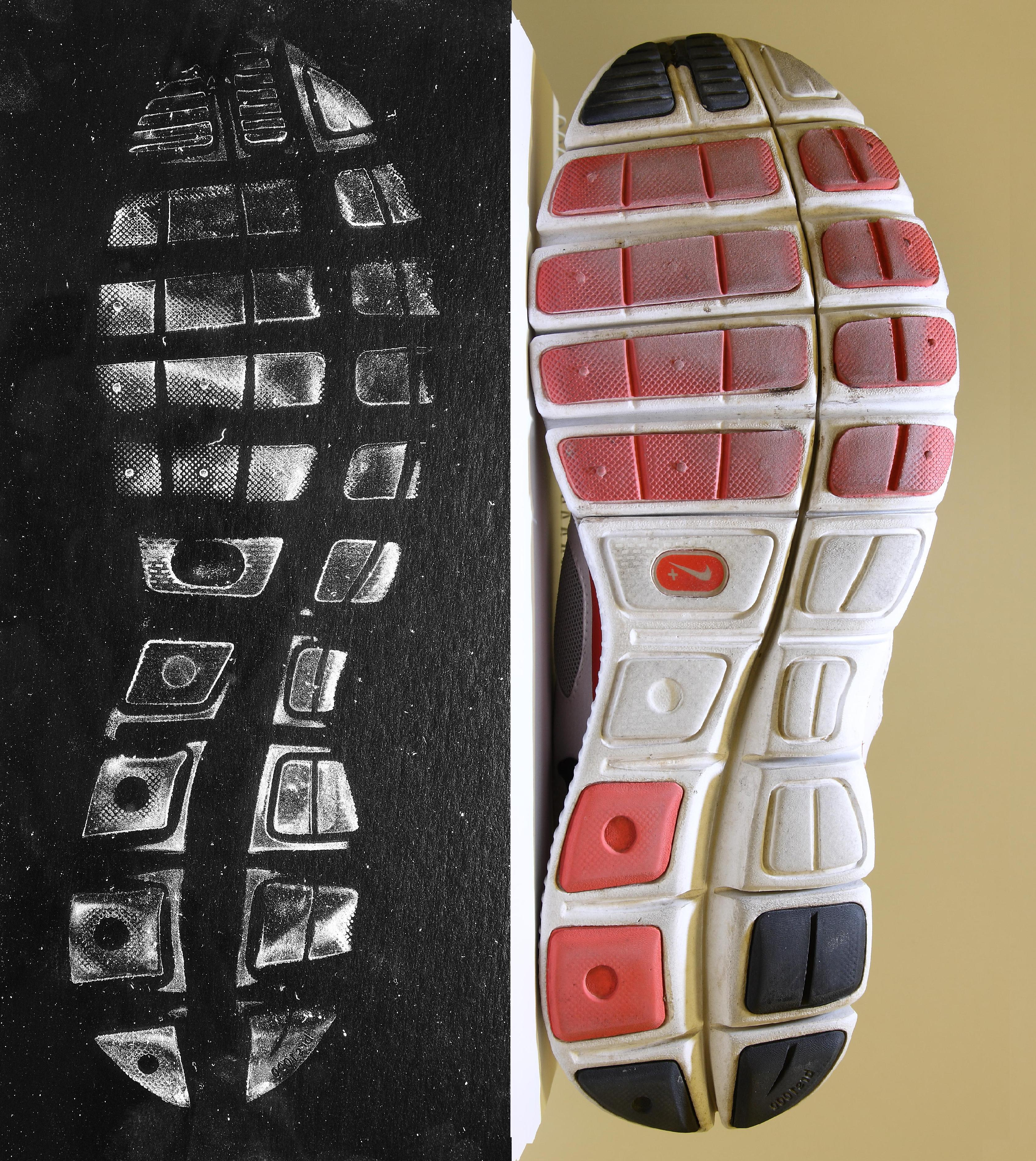 The photo above shows a questioned shoeprint impression left at a crime scene and the outsole of a known shoe recovered from a suspect. Forensic investigators can examine a shoeprint and determine if it was created by a specific shoe. A comparison of the above shoe and shoeprint may show that: The questioned shoeprint is similar in size, shape, design and layout to the known shoe. Numerous class characteristics are shown: Both the shoeprint and shoe is split into 9 lateral sections. The shoeprint is divided longitudinally into 2 by a curved gap that runs from toe to heel. The location and shape of the gap corresponds to a deep flex groove that is present on the shoe. 4 circular patterns on the medial side of the heel section of the shoeprint and shoe. brs1000 marking present in heel section on lateral side on the heel section of the shoeprint and shoe. The class characteristics of the questioned shoeprint impression on the left is consistent with the make and model of the know shoe shoe. (Manufacturer: Nike Model: Nike Free Everyday) Wear characteristics: The questioned shoeprint shows wears characteristics that is similar to that of the known shoe. Very little wear on lateral edge in the fore foot section of the shoeprint and shoe. Numerous similarities in wear in the ball section of the shoeprint and shoe. Further detailed comparison of the shoeprint and shoe for individual or unique wear characteristics could allow a forensic investigator to conclude that the question shoeprint on the left was created by the known shoe on the right.